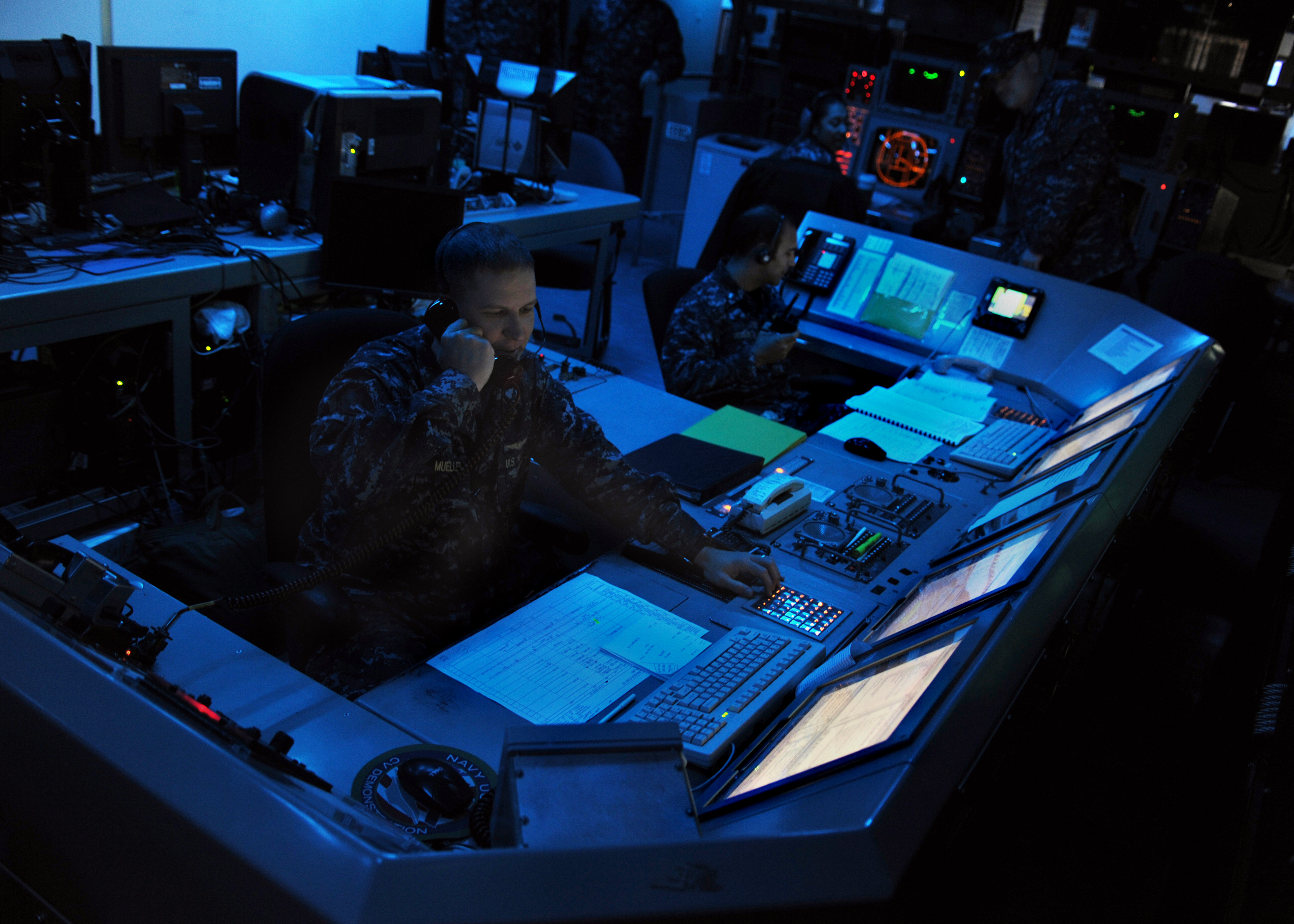 PACIFIC OCEAN (Sept. 13, 2010) Lt. j.g. Craig Mueller, from St. Louis, Mo., and Lt. j.g. Zach Decker, from Boulder, Co., monitor the defense systems aboard the aircraft carrier USS Abraham Lincoln (CVN 72) during exercises off the coast of Southern California. The Abraham Lincoln Carrier Strike Group is conducting maritime security operations and theater security cooperation efforts. (U.S. Navy photo by Mass Communication Specialist 2nd Class Brian Morales/Released)